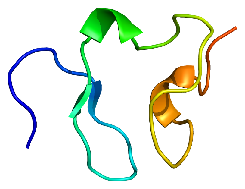 Structure of the LDLR protein. Based on PyMOL rendering of PDB 1ajj.